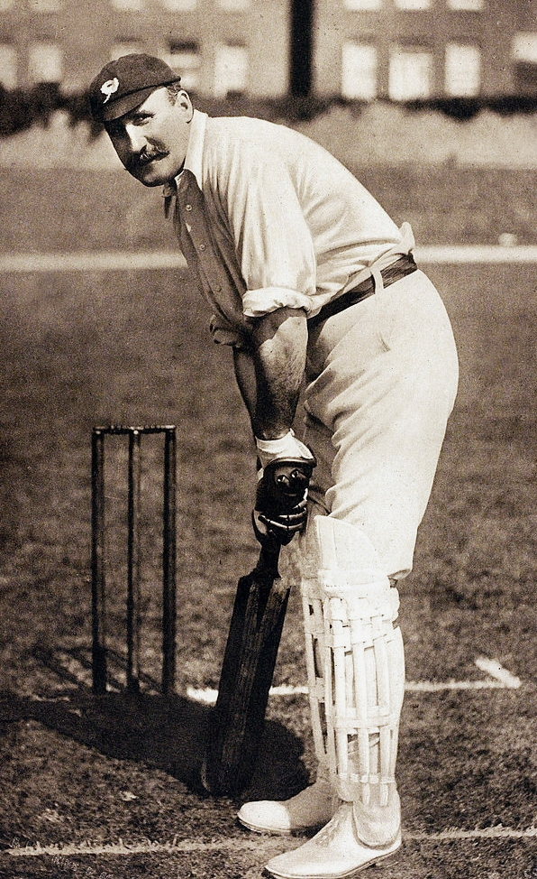 Circa 1900, Lord Hawke, (1860-1938) who played for Yorkshire and England